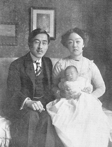 Iemasa Tokugawa and his family